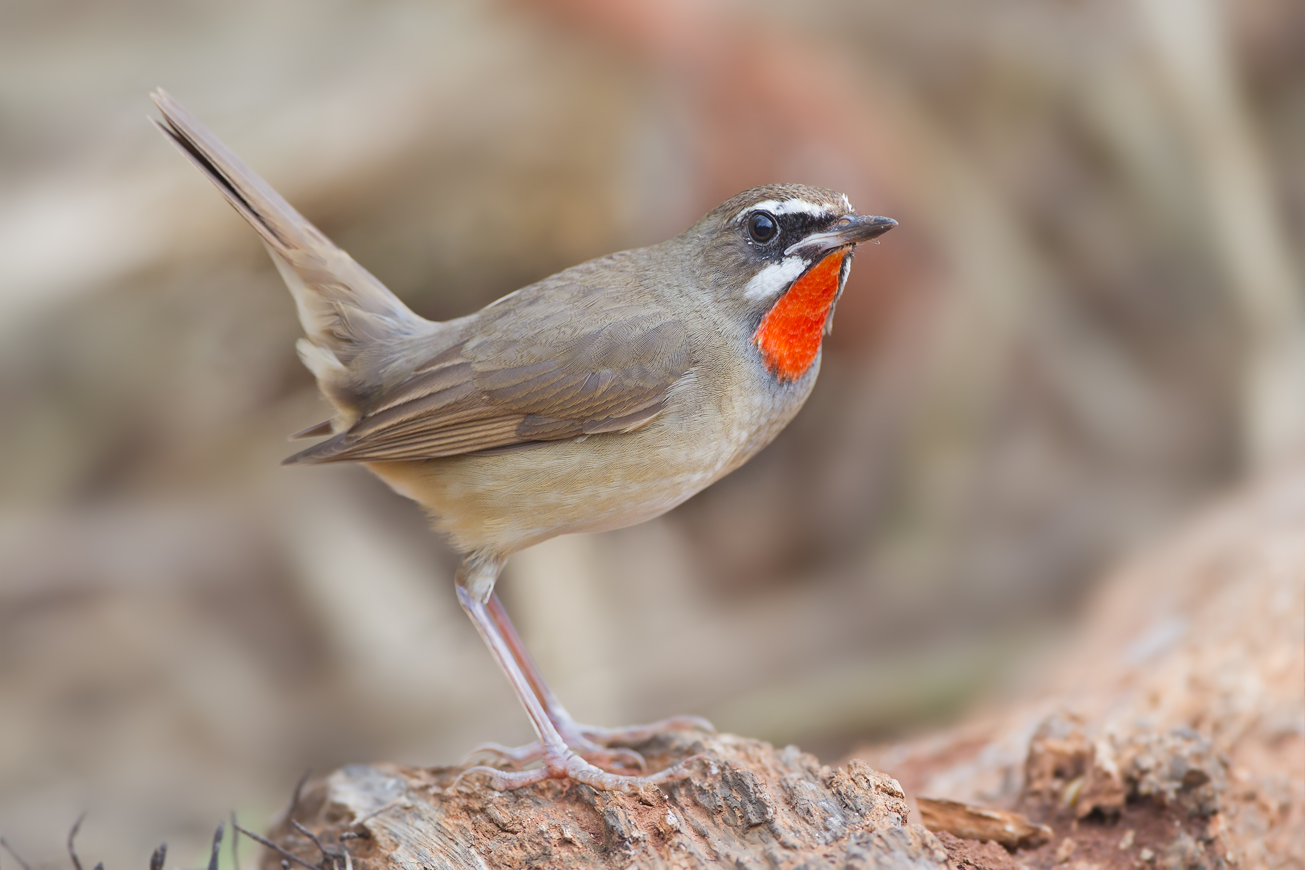 Siberian Rubythroat (Luscinia calliope) male, Pak Chong District, Nakhon Ratchasima, Thailand